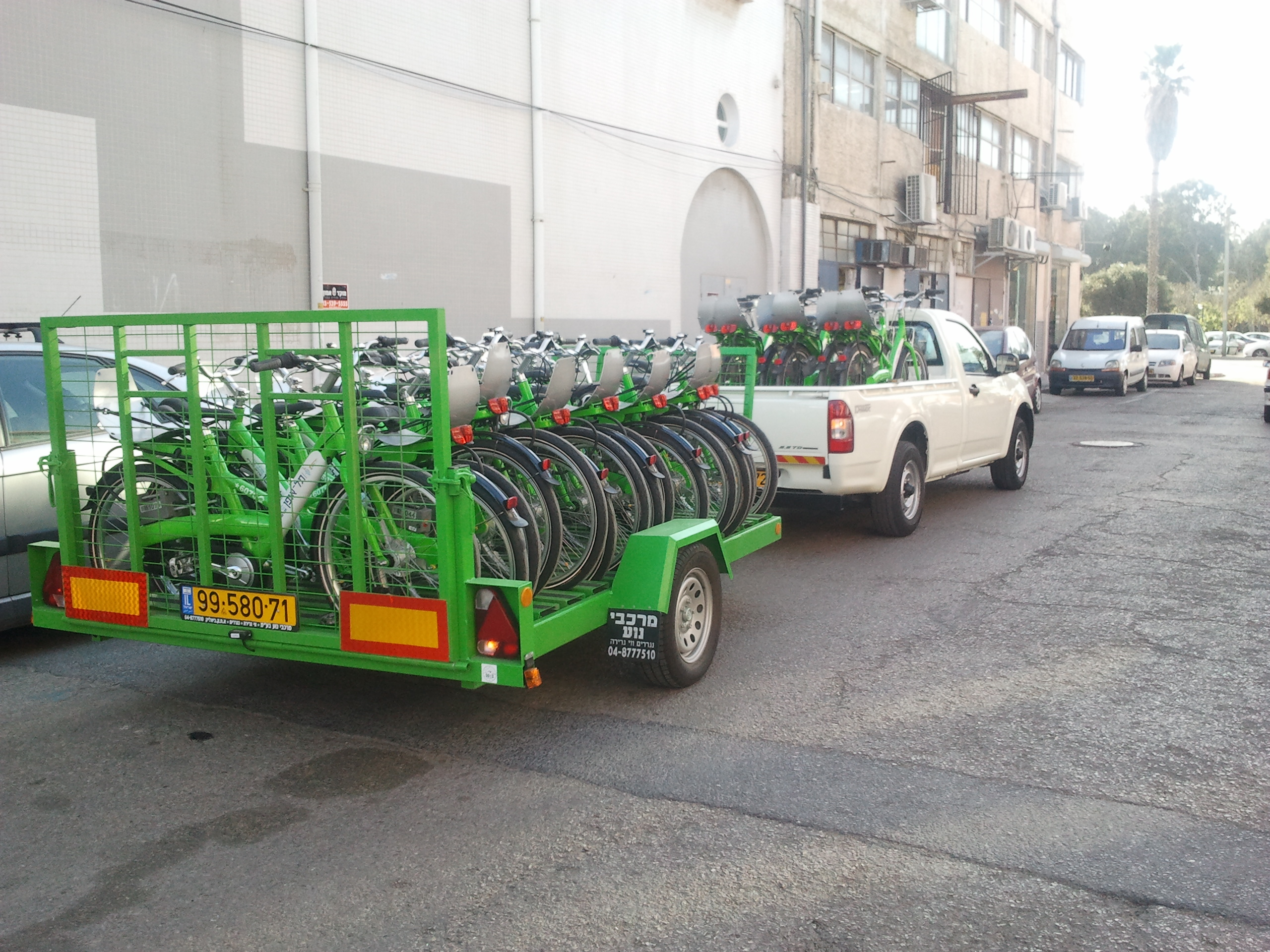 Tel-o-fun bicycle moving cars